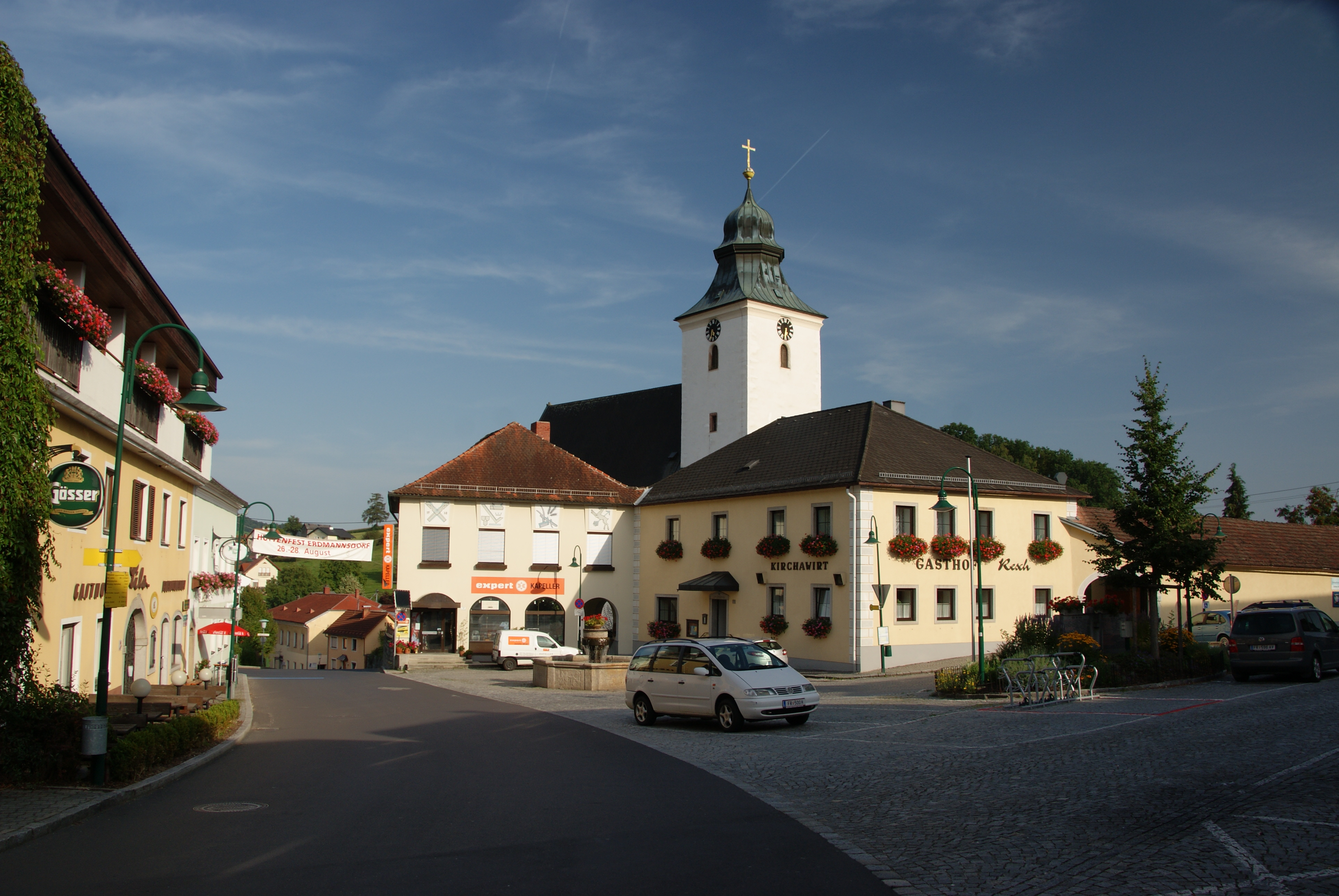 Center of Gutau, Upper Austria